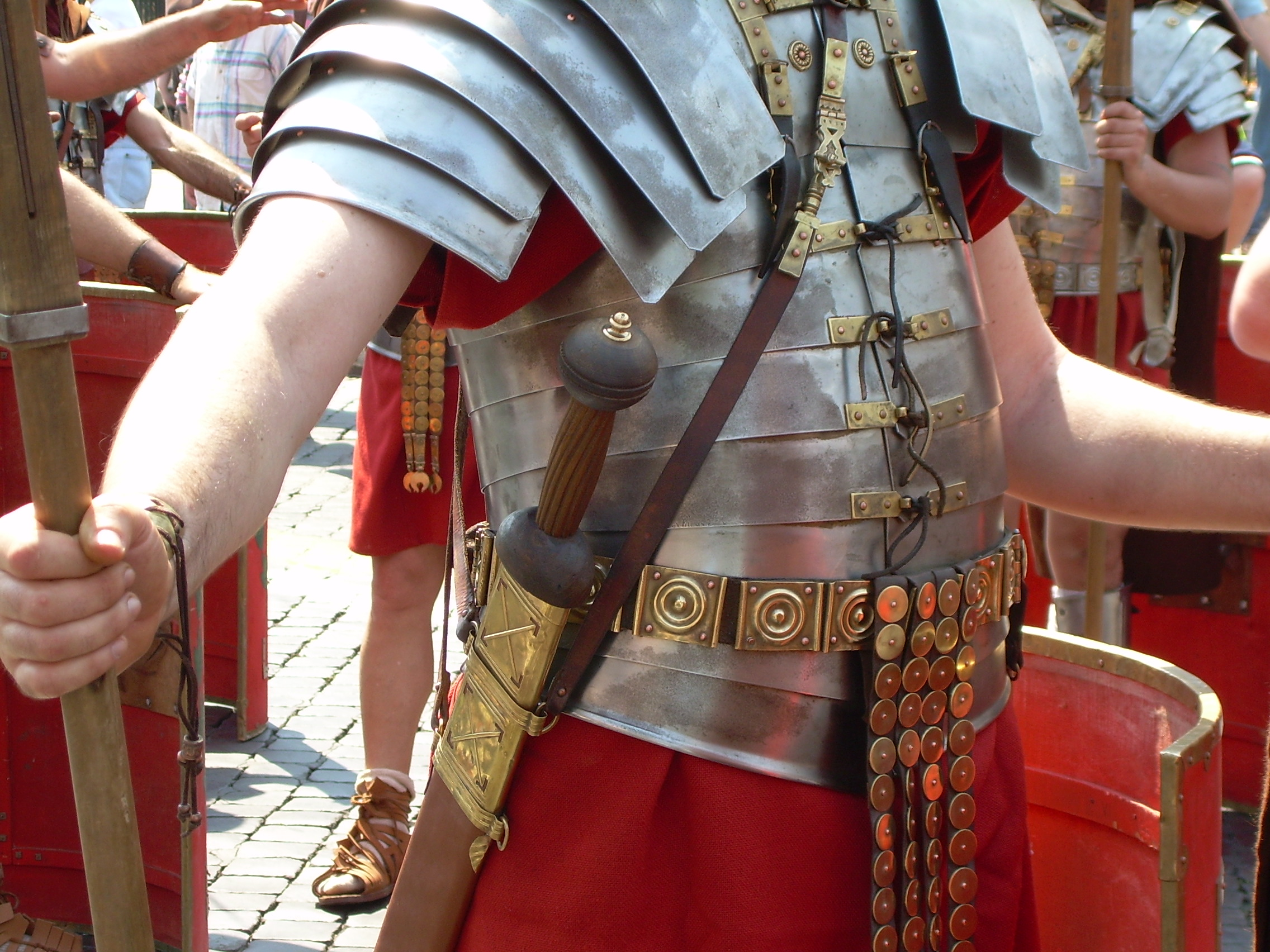 Modern recostruction of lorica segmentata by LEGIO XXX ULPIA TRAIANA VICTRIX ONLUS